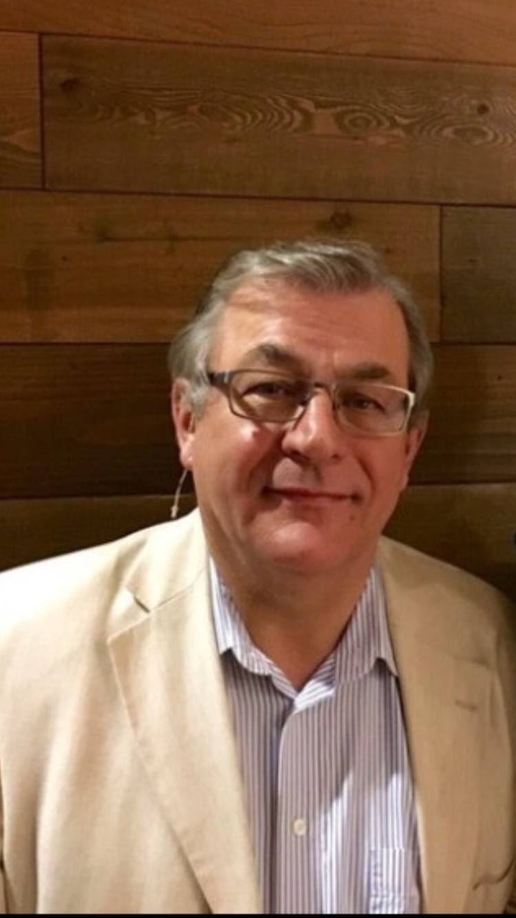 Professor Johannes Reimer in March of 2016 in Everett, WA.